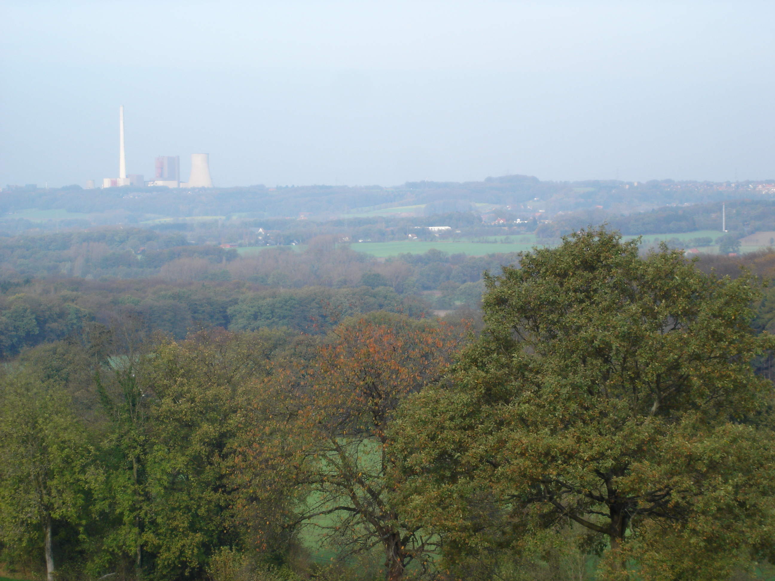 View on the Aatal (Aa valley) at Ibbenbüren / Laggenbeck from the city of Tecklenburg